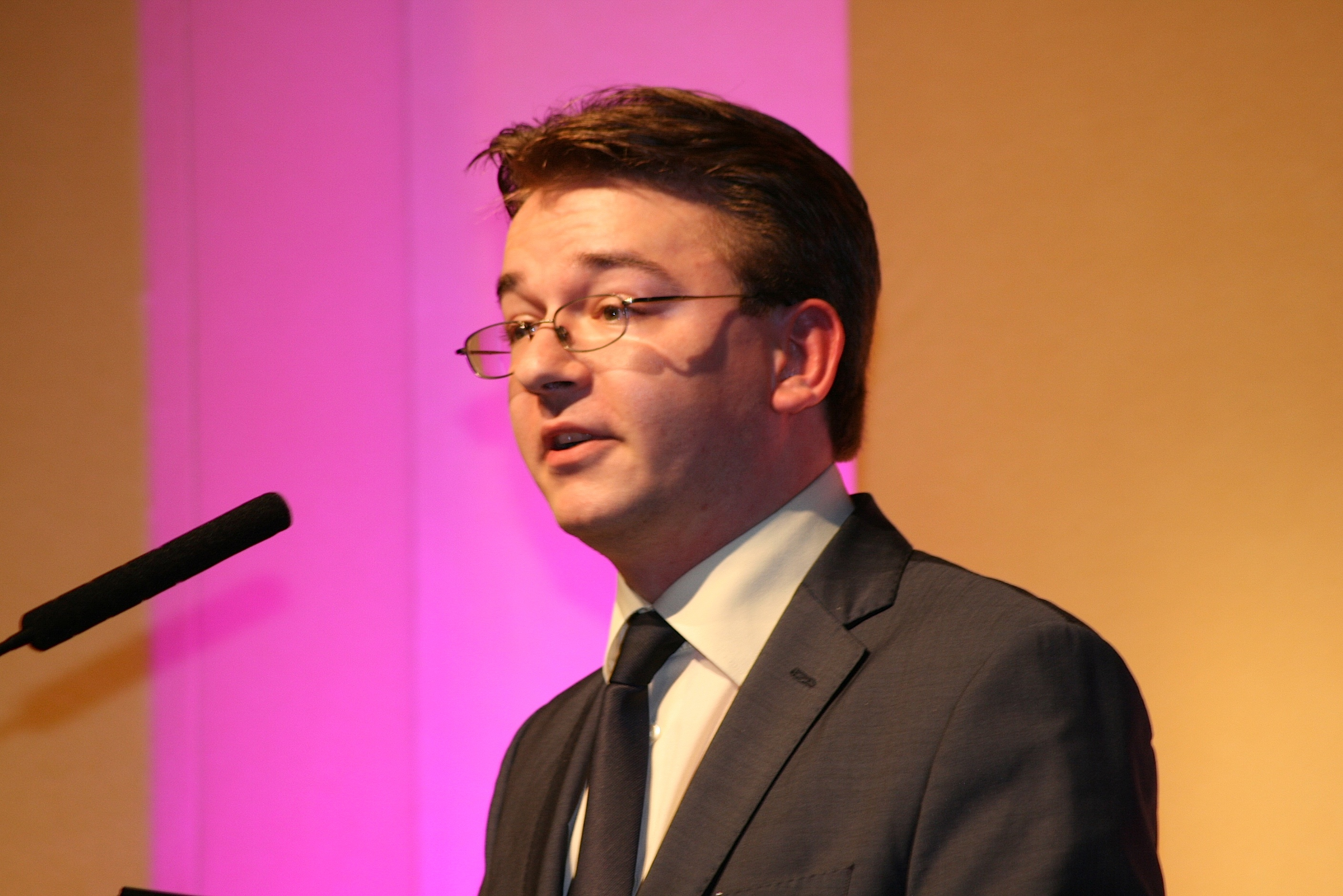 Head of UKIP's Policy Unit Tim Aker